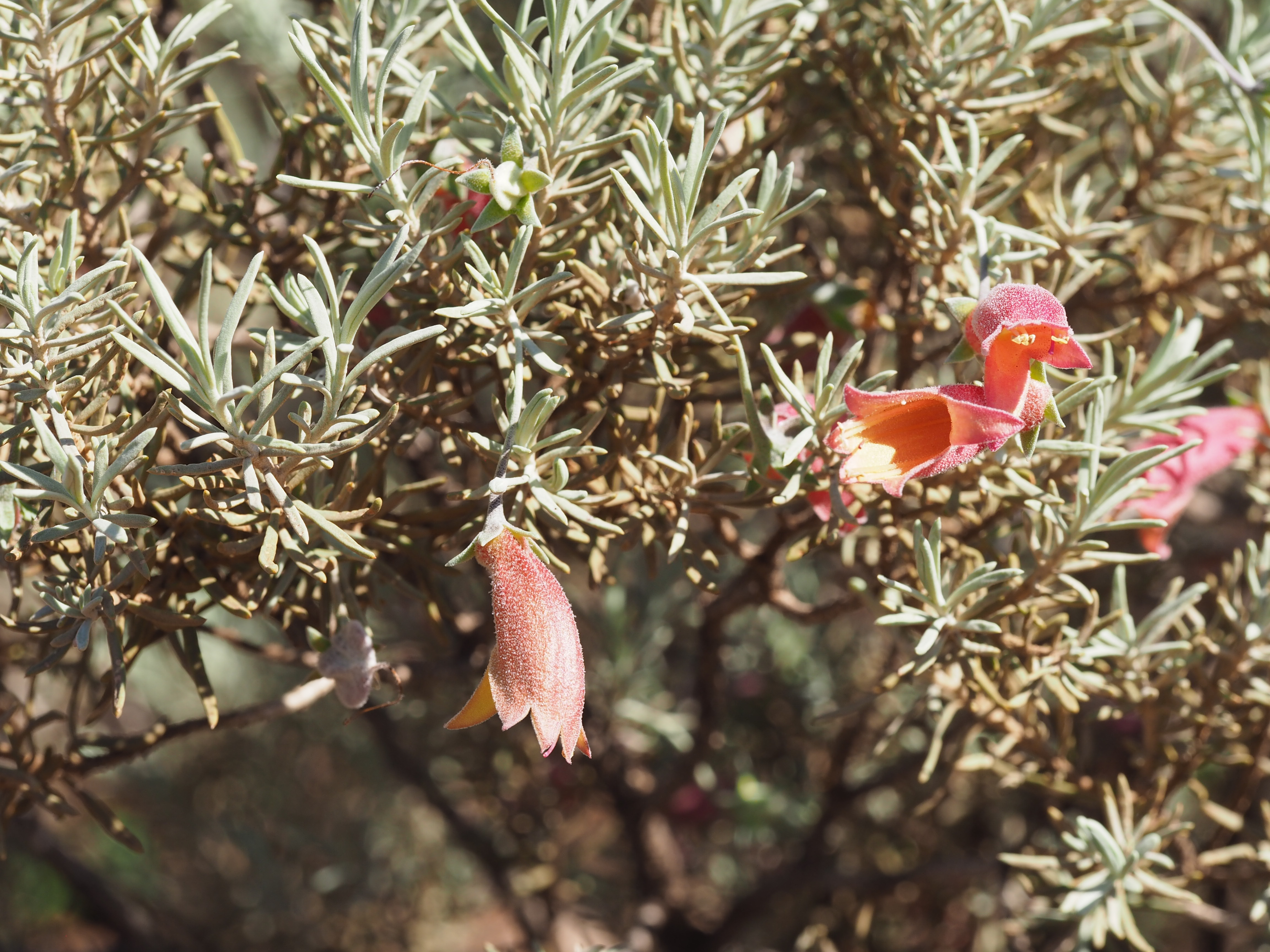 Eremophila pterocarpa acicularis growing 27km along Neds Creek Road